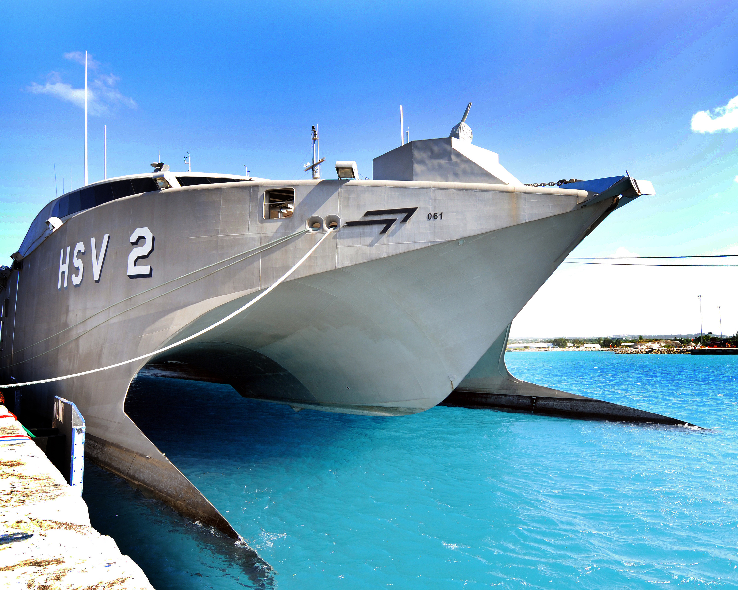 High speed vessel Swift (HSV 2) arrives in Bridgetown with Southern Partnership Station to begin training service members of the Royal Barbados Defense Force. (Text by U.S. Navy)